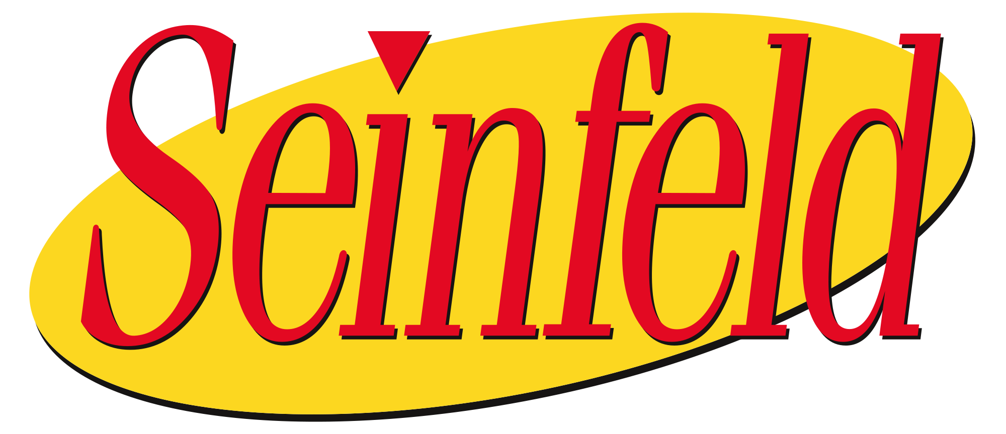 The title logo of Seinfeld, an American television sitcom that aired on NBC from July 5, 1989 through May 14, 1998, lasting nine seasons on the network.